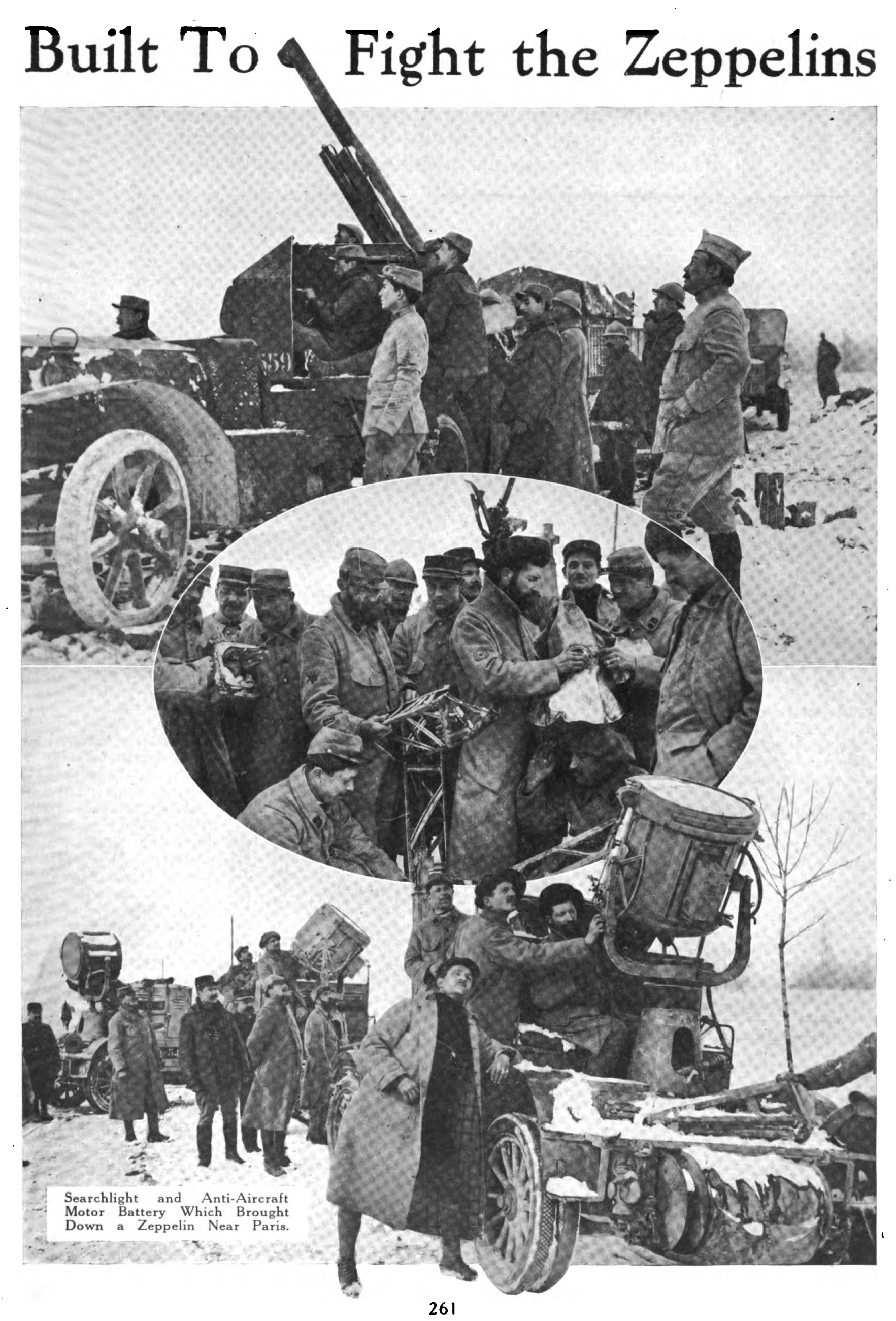 Photo collage showing a French anti-aircraft motor battery (motorized AAA battery) that brought down a Zeppelin near Paris. Horseless Age, April 1, 1916, volume 37, number 7, page 261.